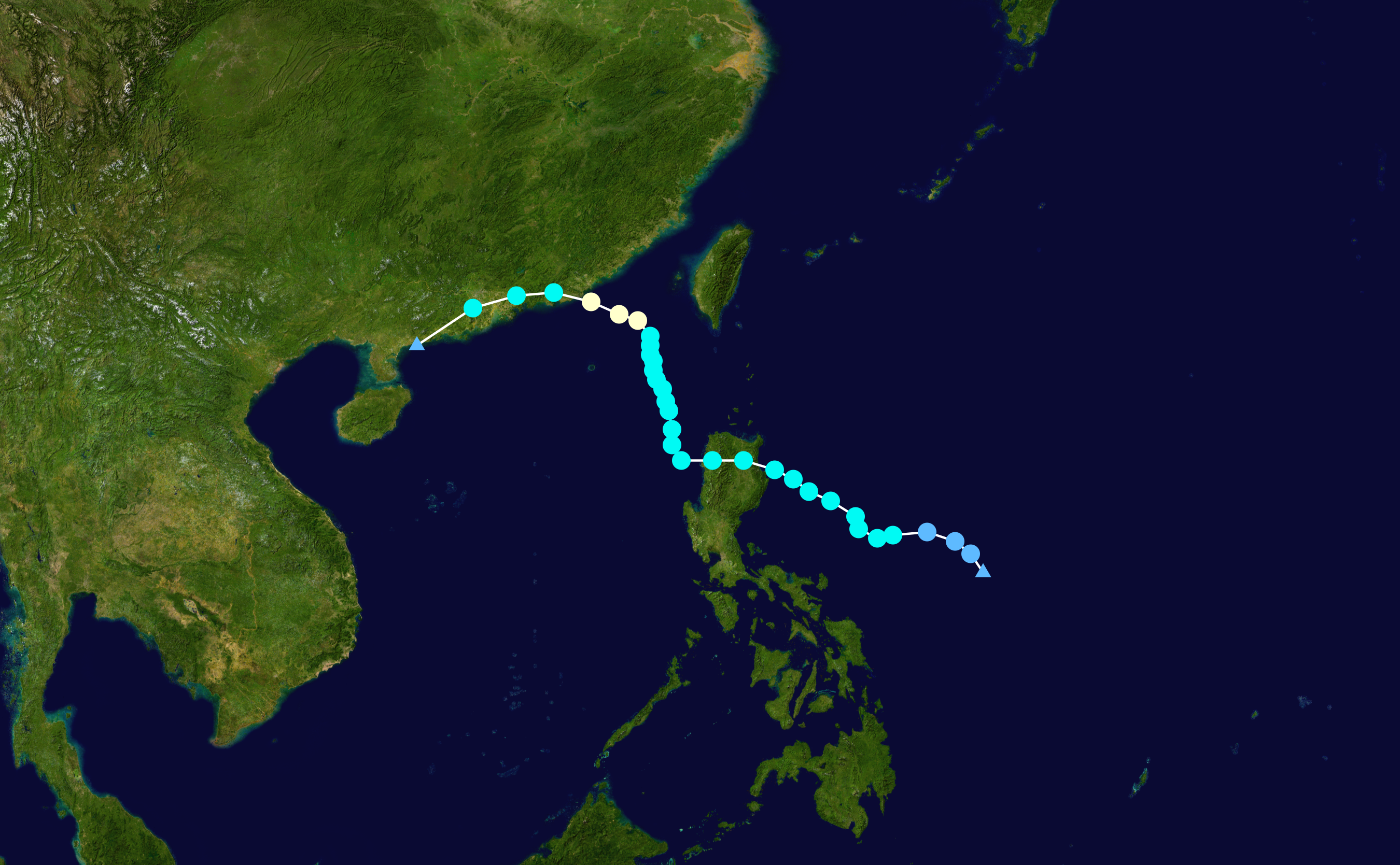 Track map of Severe Tropical Storm Linfa of the 2015 Pacific typhoon season. The points show the location of the storm at 6-hour intervals. The colour represents the storm's maximum sustained wind speeds as classified in the Saffir–Simpson scale (see below), and the shape of the data points represent the nature of the storm, according to the legend below. Saffir–Simpson scale Tropical depression≤38 mph≤62 km/h Category 3111–129 mph178–208 km/h Tropical storm39–73 mph63–118 km/h Category 4130–156 mph209–251 km/h Category 174–95 mph119–153 km/h Category 5≥157 mph≥252 km/h Category 296–110 mph154–177 km/h Unknown Storm type Tropical cyclone Subtropical cyclone Extratropical cyclone / Remnant low / Tropical disturbance / Monsoon depression